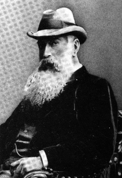 Johann Georg Poppe (1837–1915), historicist architect from Bremen, Germany.